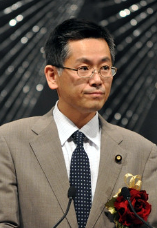 Takashi Morita, Parliamentary Secretary for Internal Affairs and Communications, addressed the Annual Convention of the National Association of Commercial Broadcasters in Japan at Tokyo International Forum in Chiyoda Ward, Tōkyō Metropolis on November 1, 2011.